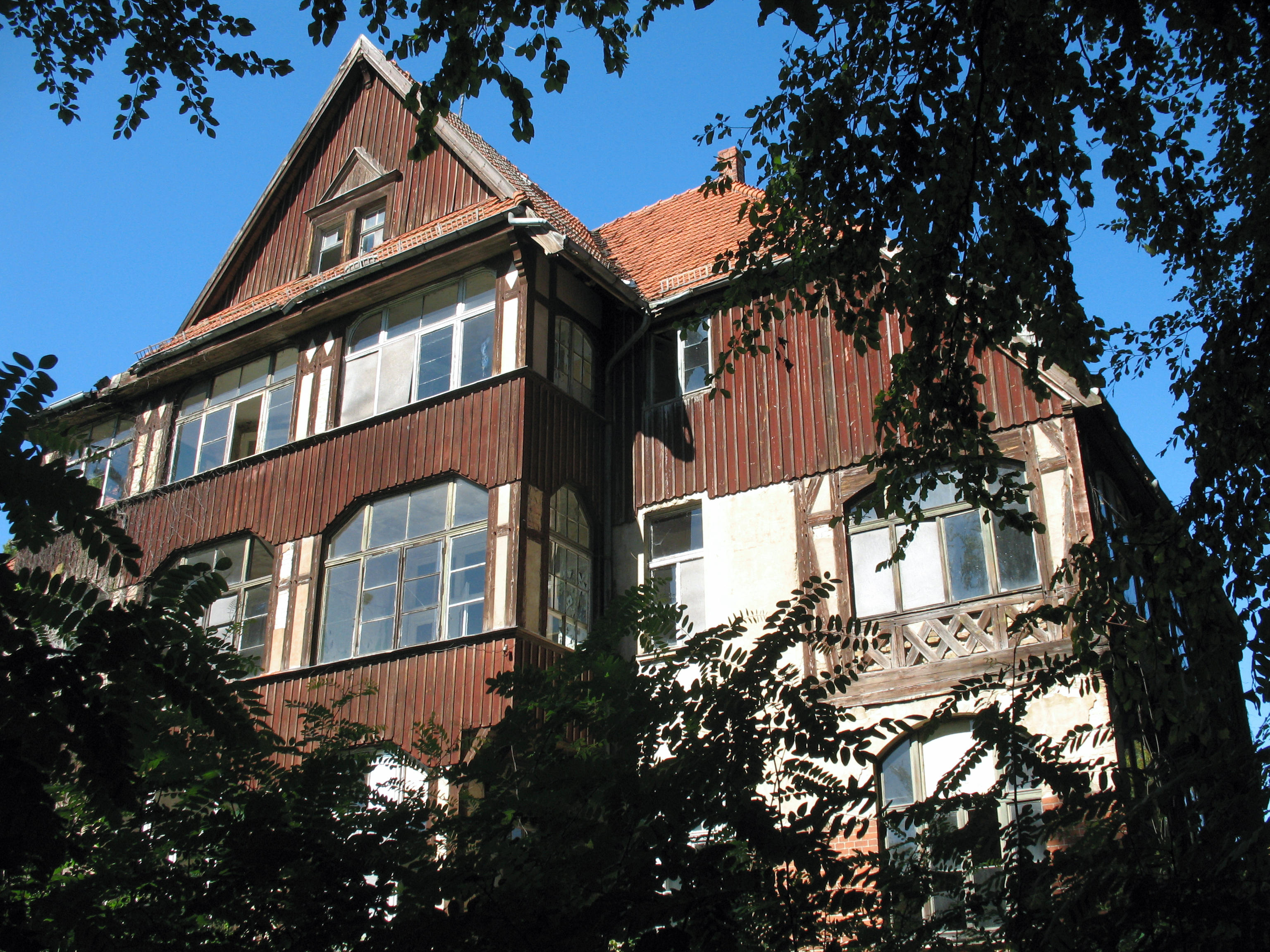 Former sanatorium in Lychen in Brandenburg, Germany